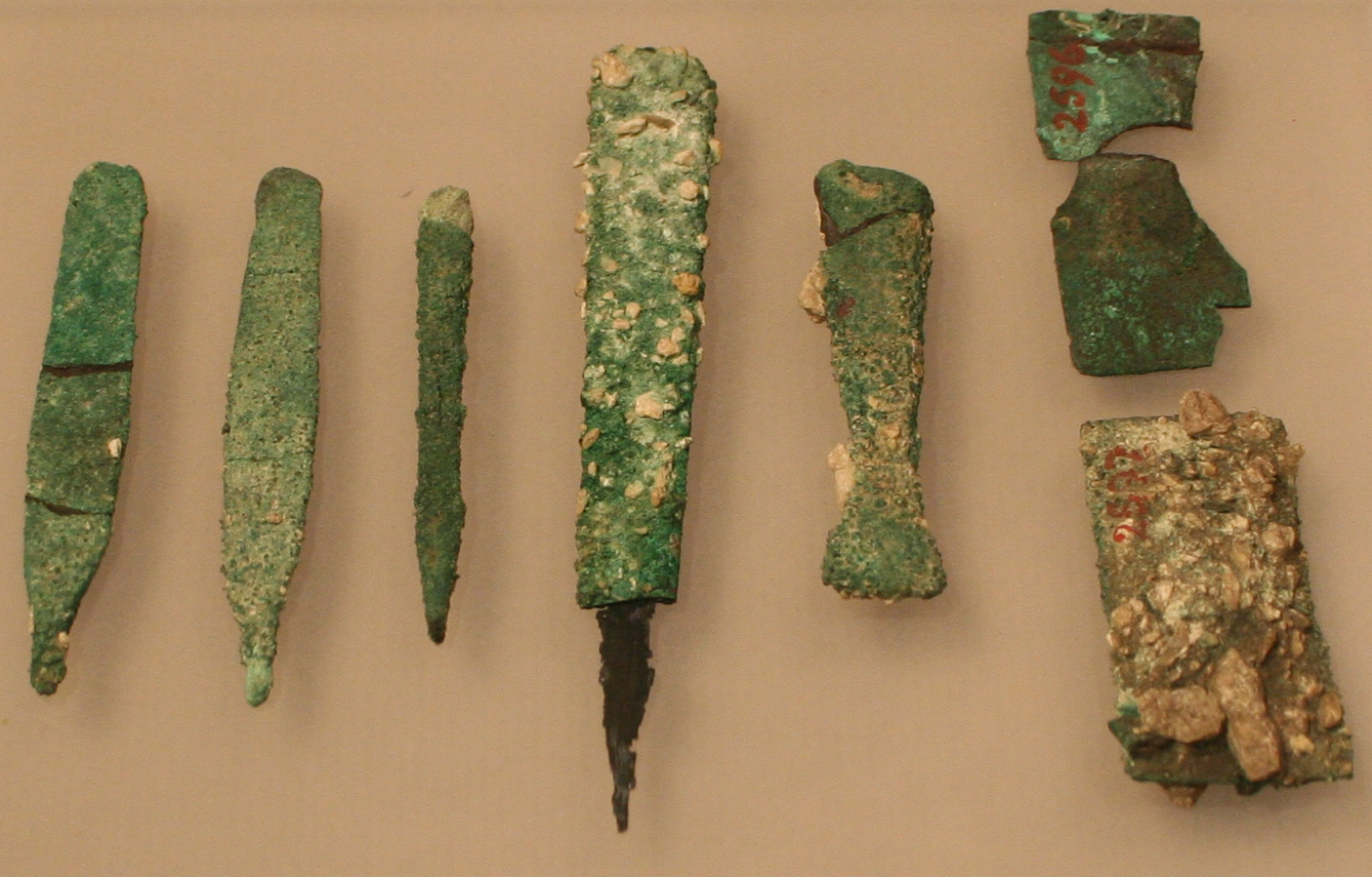 Copper tools from Giza